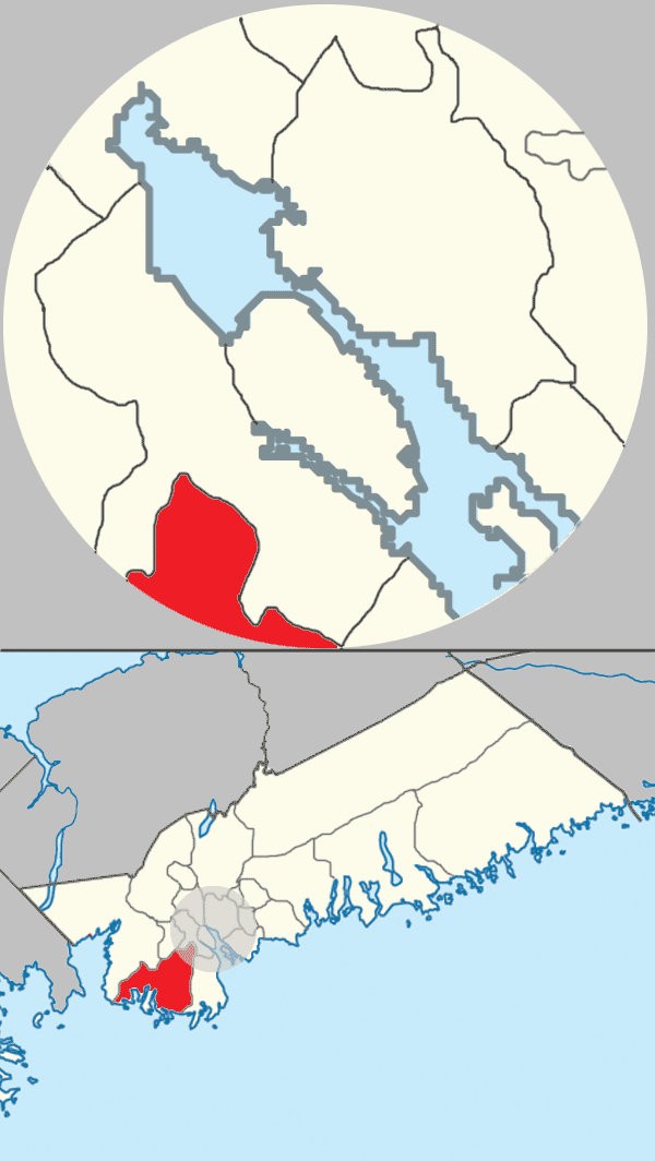 Updated map of Prospect planning area in Halifax, Nova Scotia to standard colours, higher resolution, using